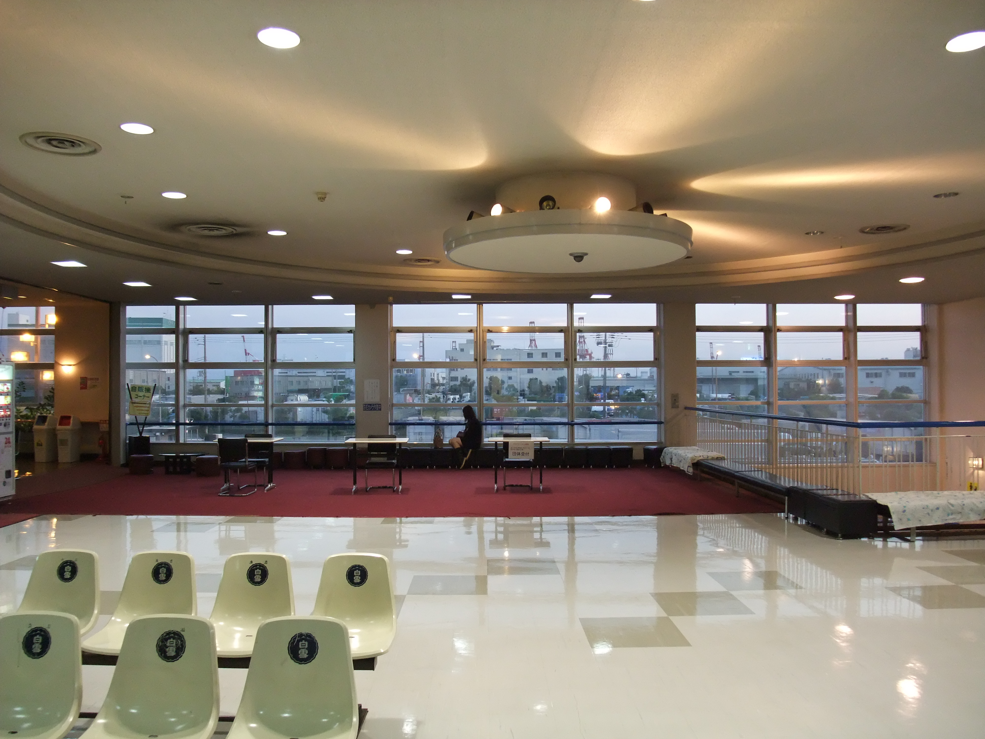 waiting room in Hankyu Ferry Kobe Terminal ( Kobe, Hyogo prefecture, Japan)